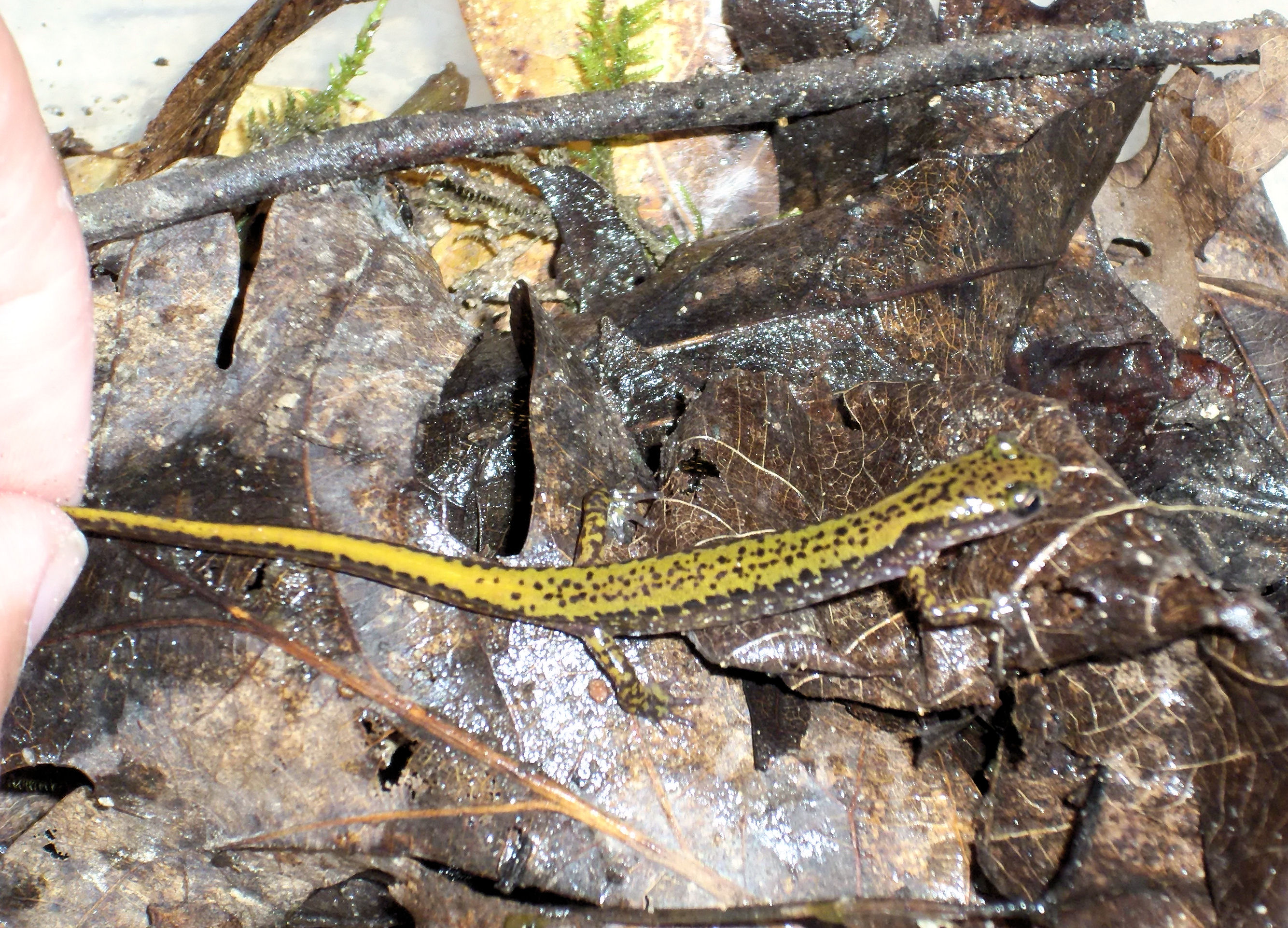 Dark-sided salamander (Eurycea longicauda melanopleura) in leaf litter (being held by the tail) from Ozark County, Missouri. Collected near Sycamore, MO, on the North Fork of White River.